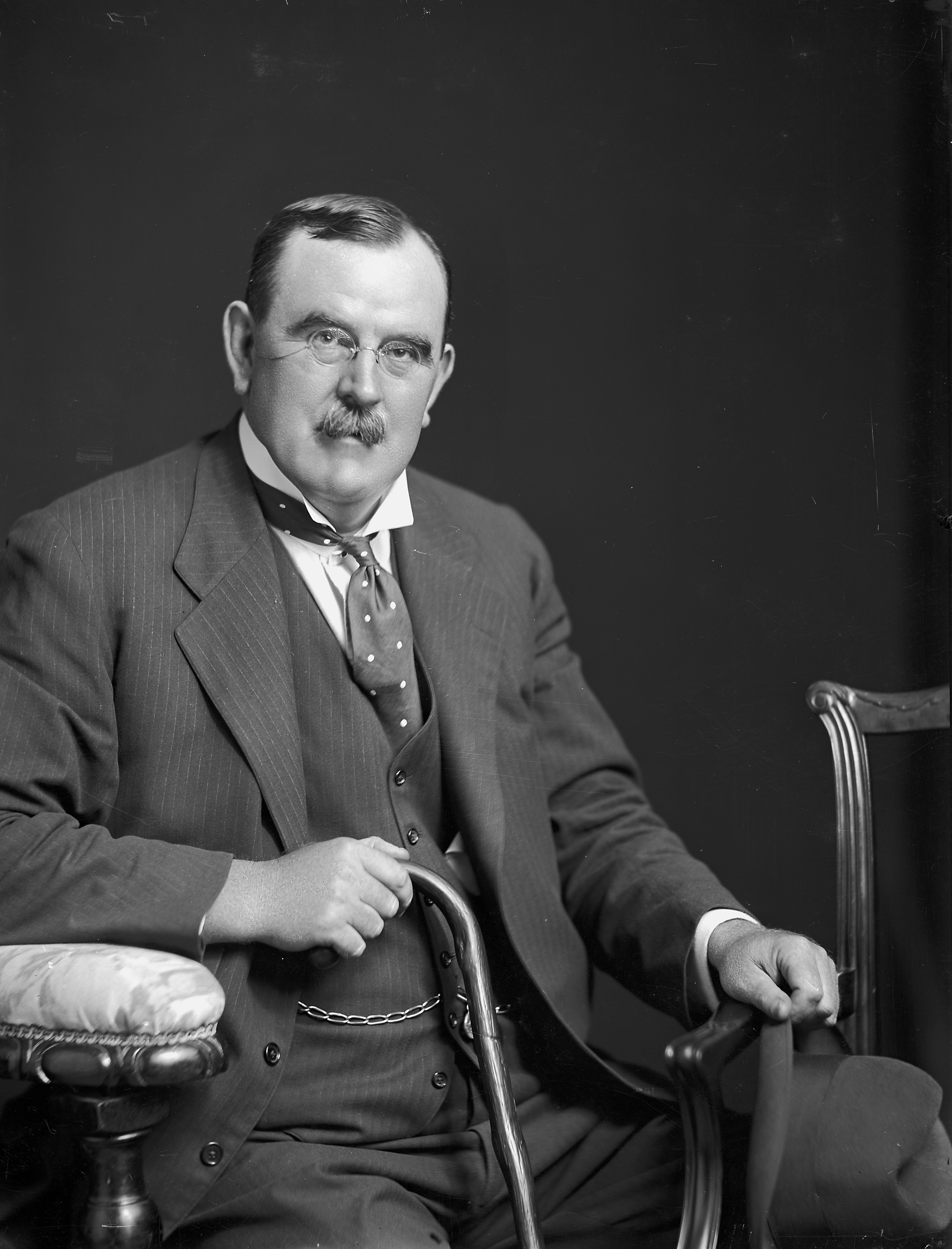 Dr Henry Thomas Joynt Thacker, photographed on 26 February 1918 by S P Andrew Ltd.